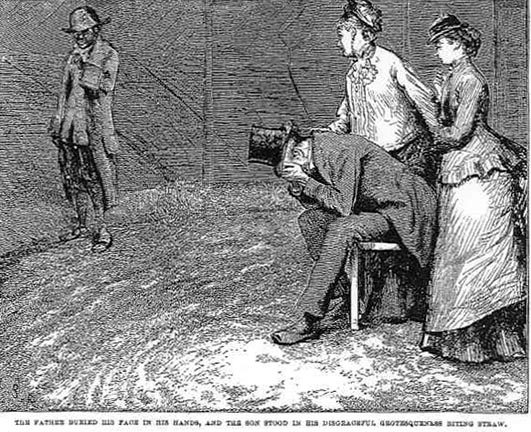 Hard Times, Gradgrind, humiliated but humanised by despair, realises that he has failed in his mission as Tom's father.